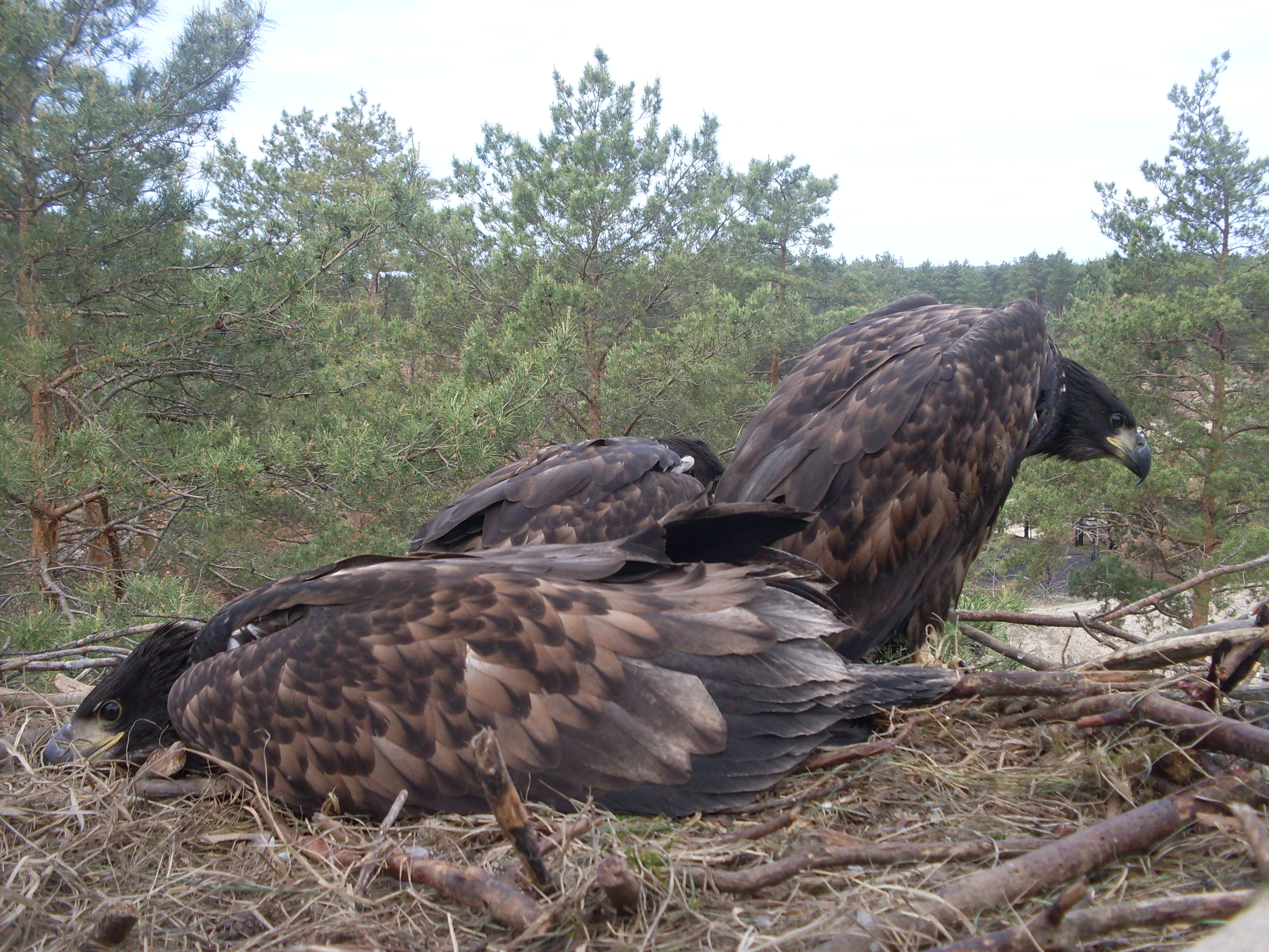 There are 3 chicks at a nest of the White-tailed Eagle (Haliaeetus albicilla) in Cherkasy region, Ukraine